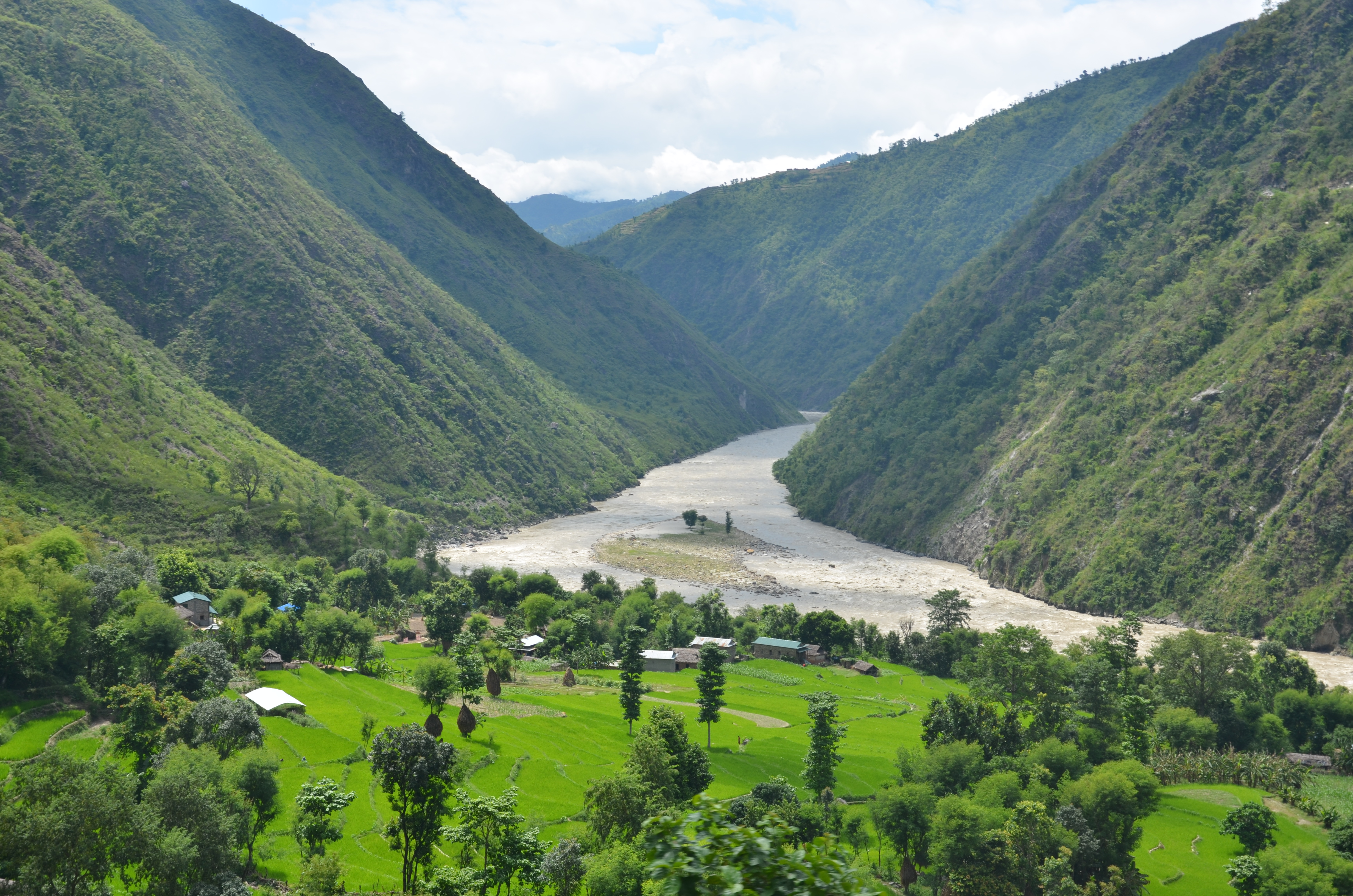 Sun Koshi River at Ghurmi Bazar